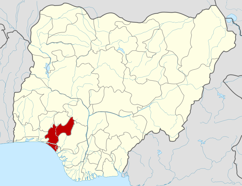 Map locator of Nigeria.